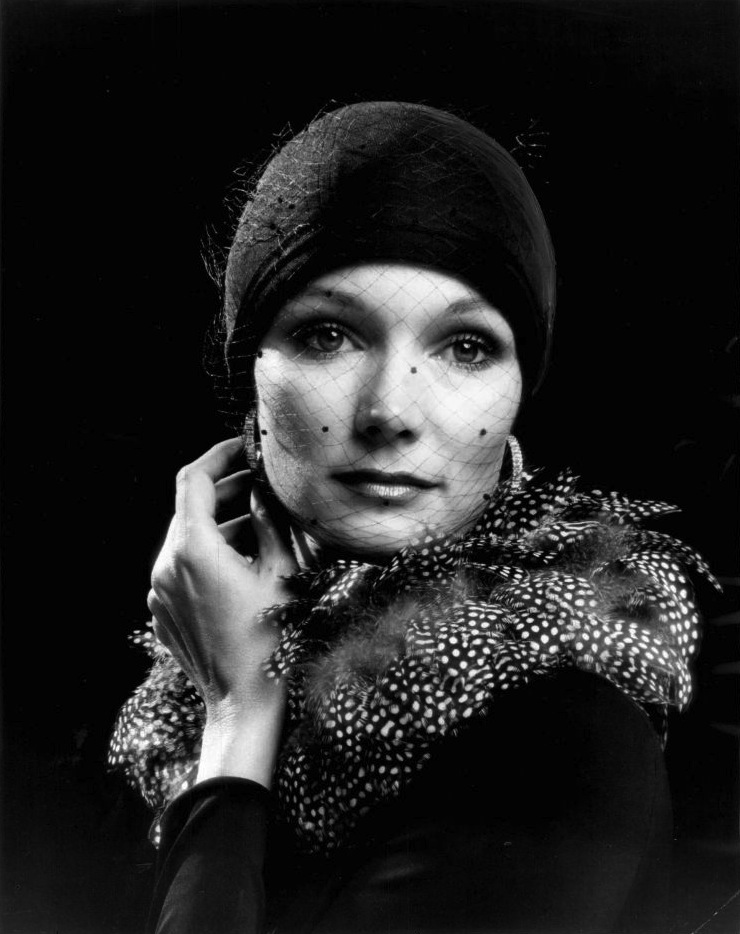 Publicity photo of American actress Yvette Mimieux promoting her role in the repeat airing of the ABC television film Hit Lady, which originally aired on October 8, 1974.